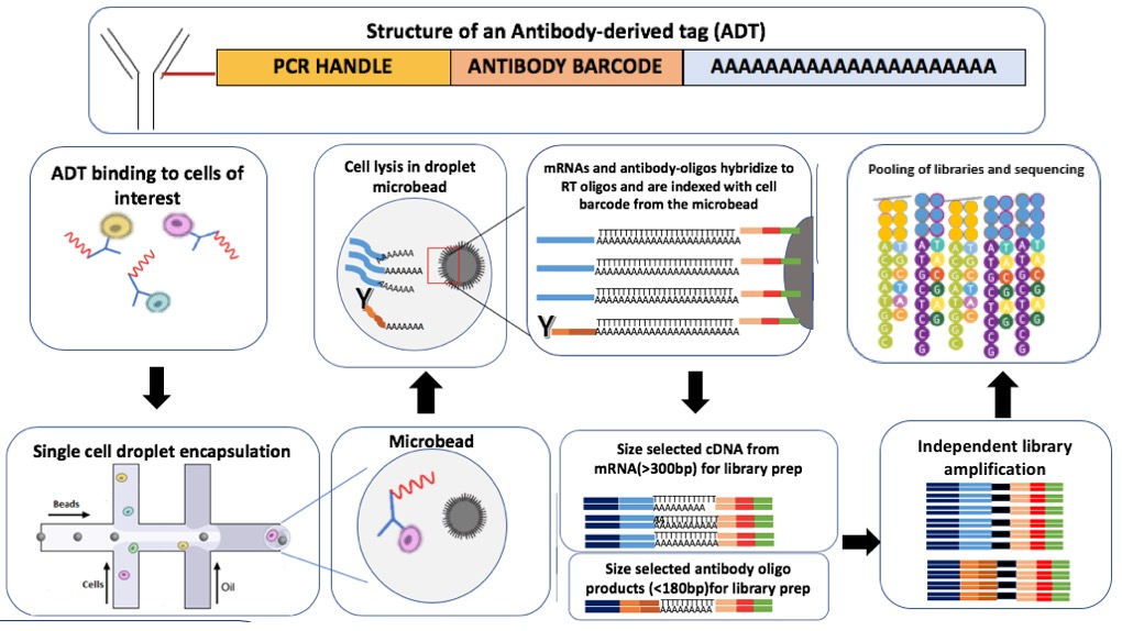 This figure provides a schematic of the Antibody Derived Tags (antibody oligonucleotide conjugates) used in CITE-seq along with the wet lab portion of the workflow